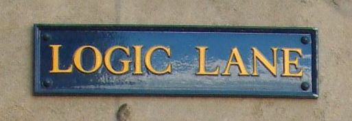 The sign on Logic Lane, Oxford. Photograph by Jonathan Bowen, 2004.